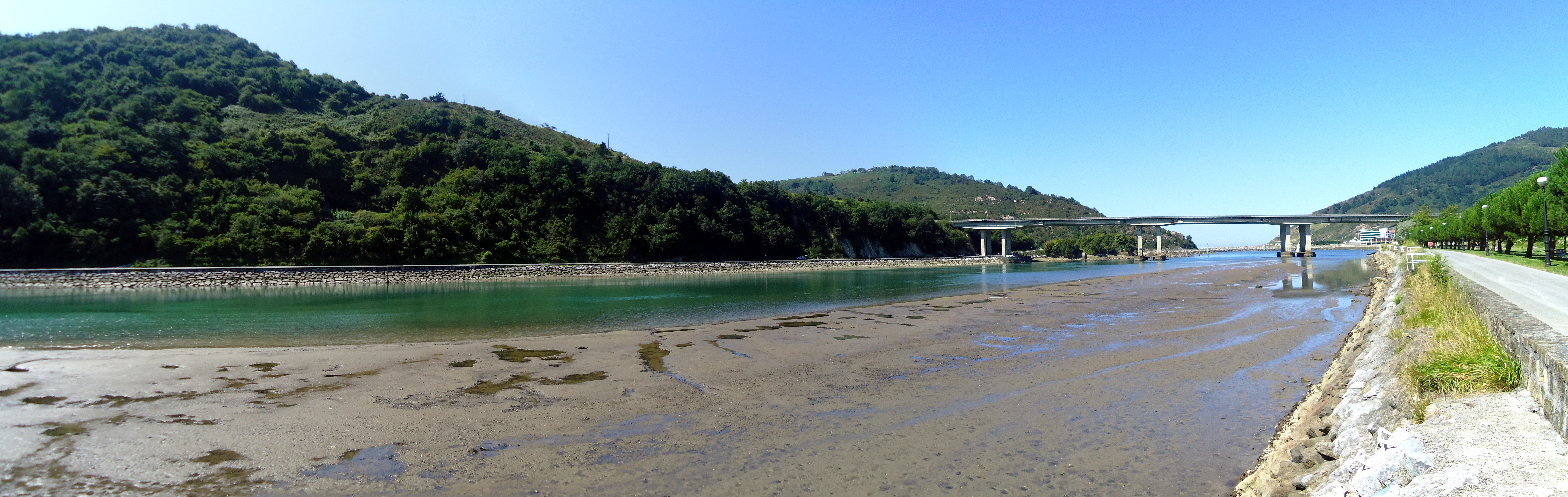 Oria river (Guipuscoa, Basque Country)